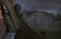 Detail of File:The Family of Frederick, Prince of Wales.jpg